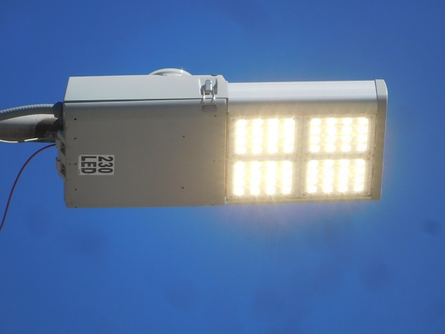 History of street lighting- Cooper, XNV Navion Dayburner